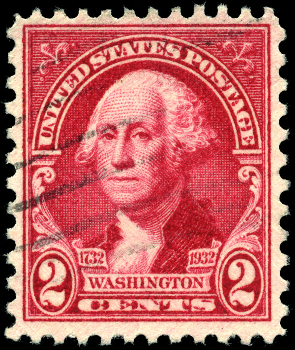 US postage stamp of 1932, Washington bicentennial